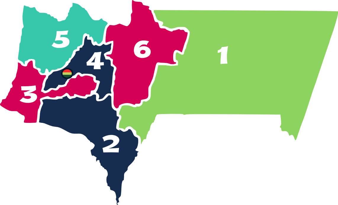 departement map